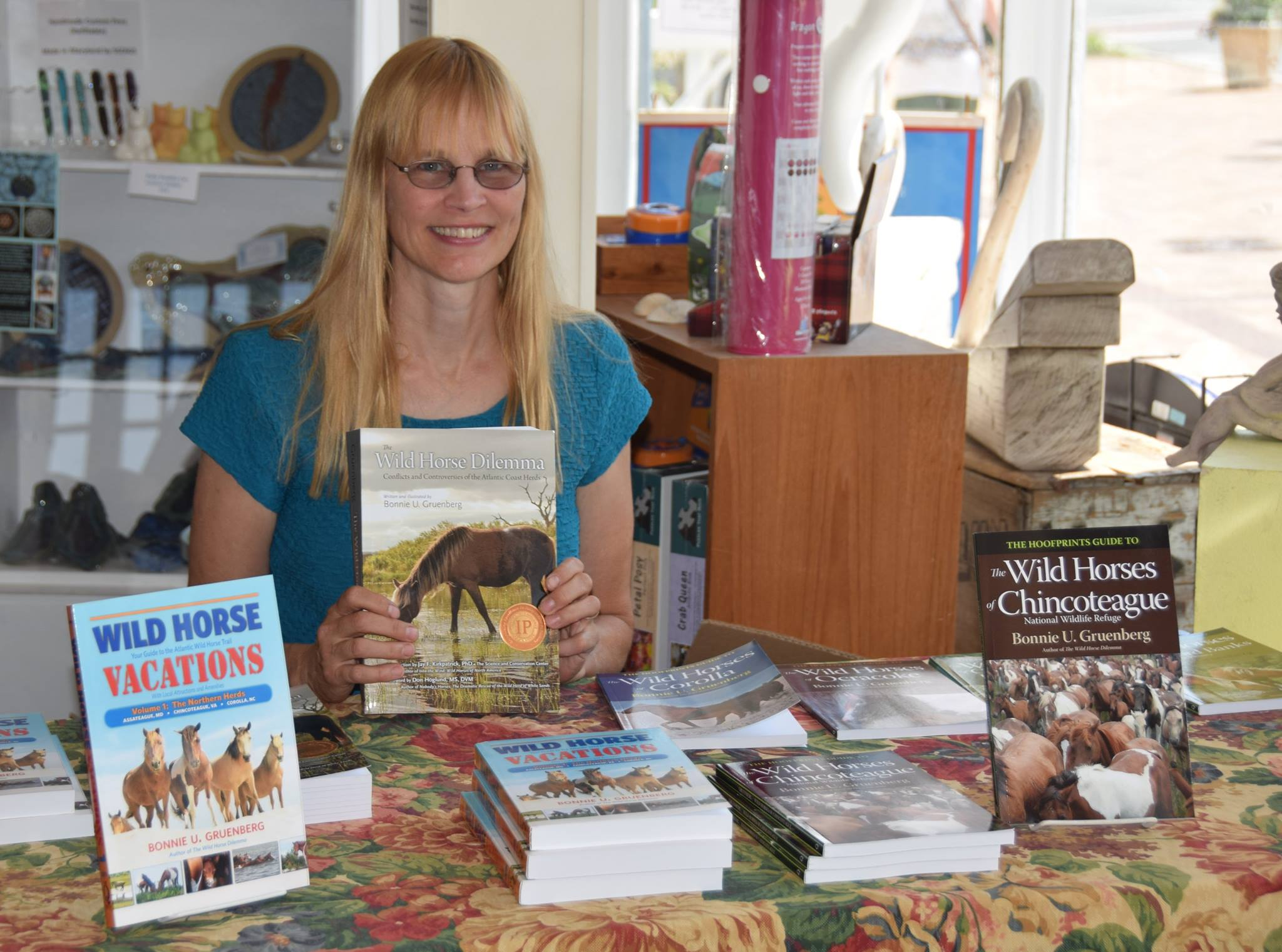 Bonnie U. Gruenberg, author, at a book signing at Sundial books in Chincoteague, VA